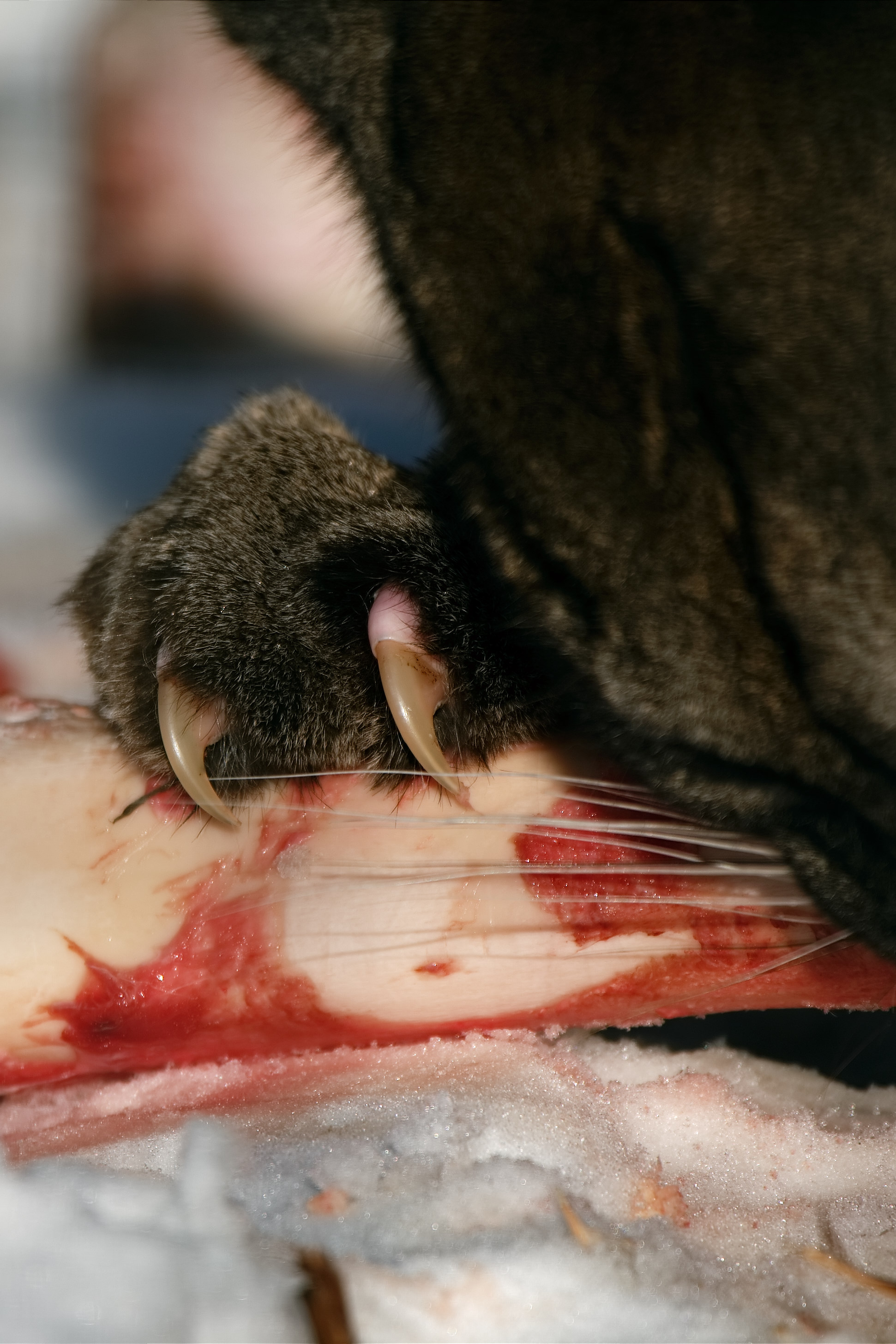 Detail view of claws of a cougar